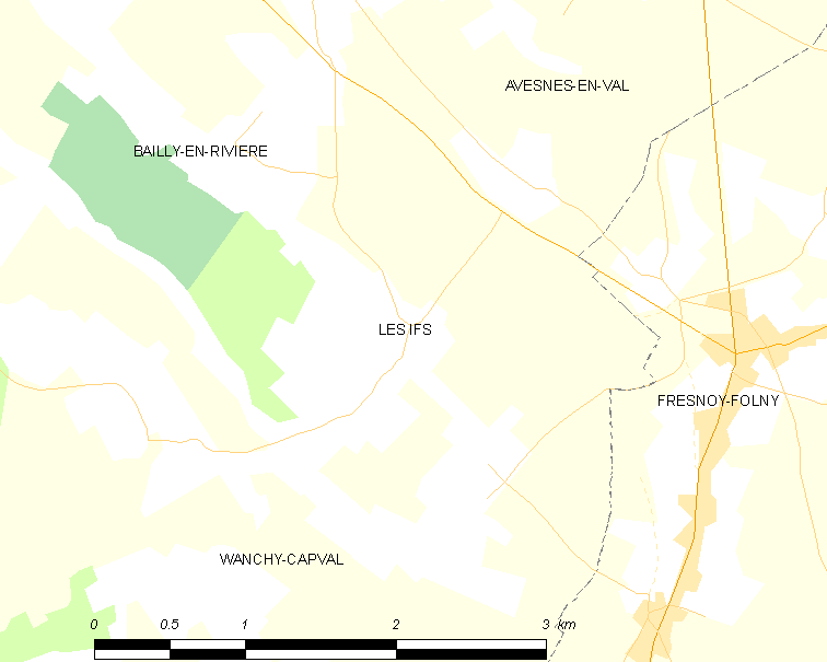 Map of French municipality Les Ifs